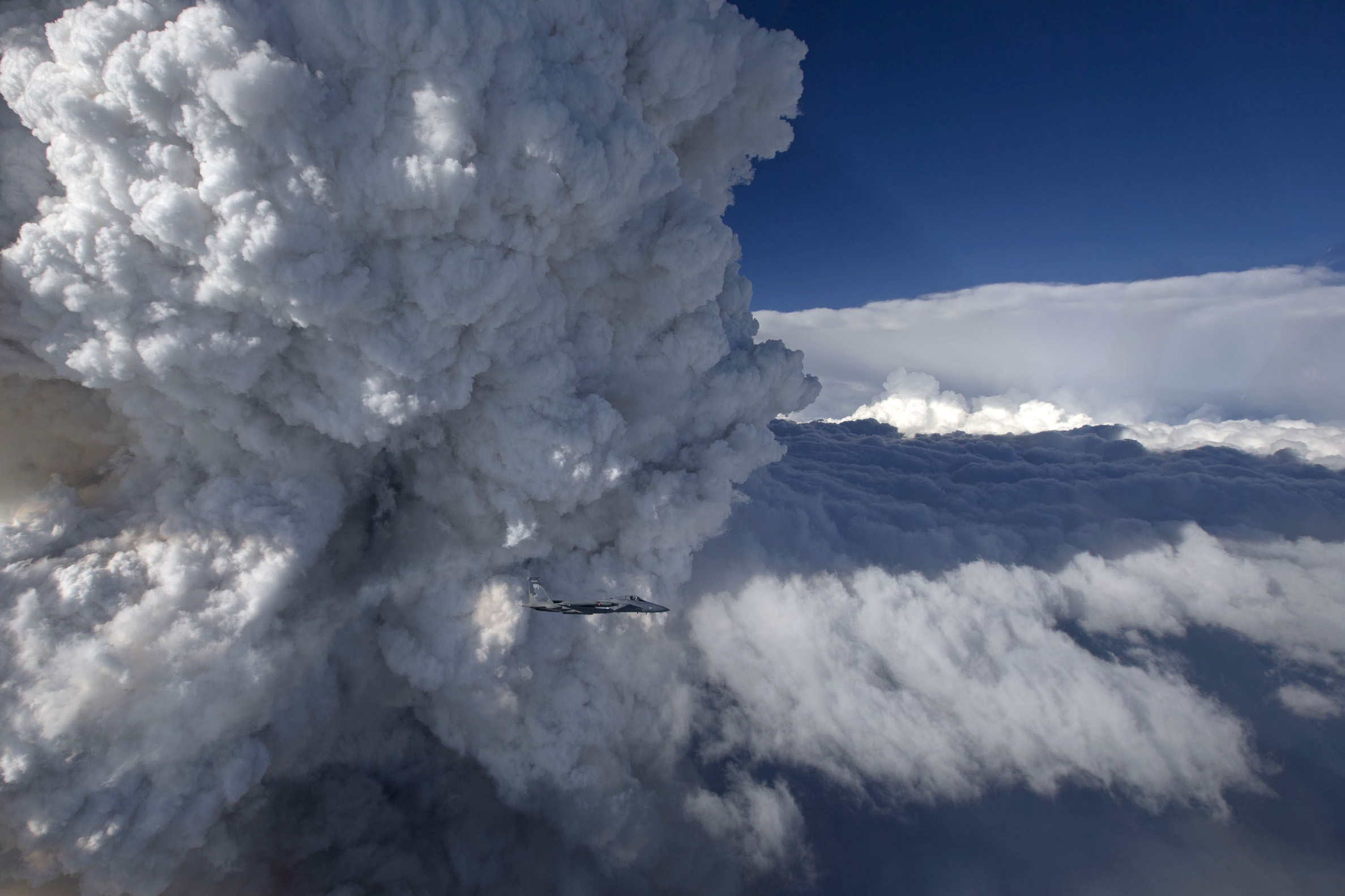 This image, photographs taken from an F-15C, show a much closer view of a developing pyrocumulus cloud above the Oregon Gulch fire, a part of the Beaver Complex fire. They were taken from an Oregon Air National Guard F-15C by James Haseltine on July 31, 2014, at 8:20 PM Pacific Daylight Time.